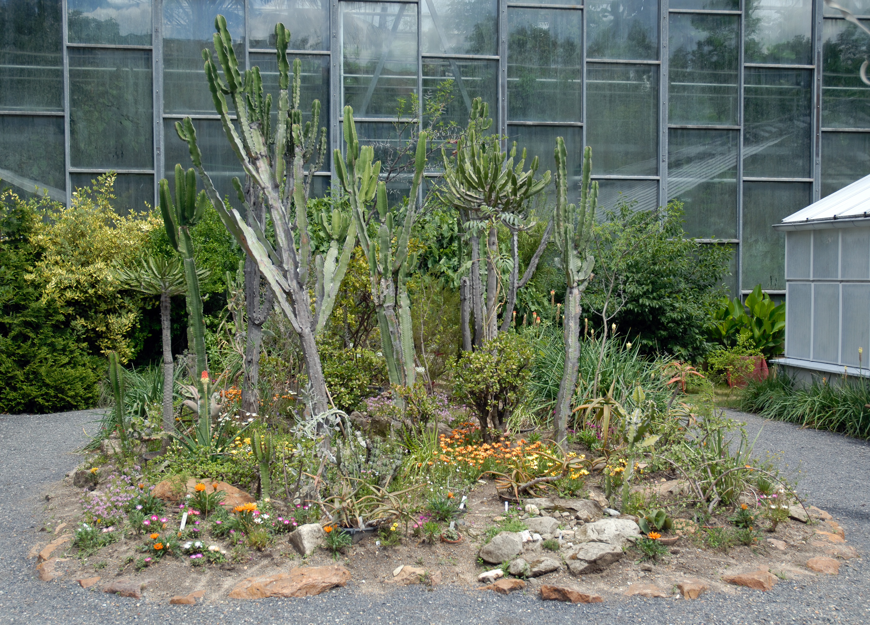 This image shows the botanical garden in Jena.